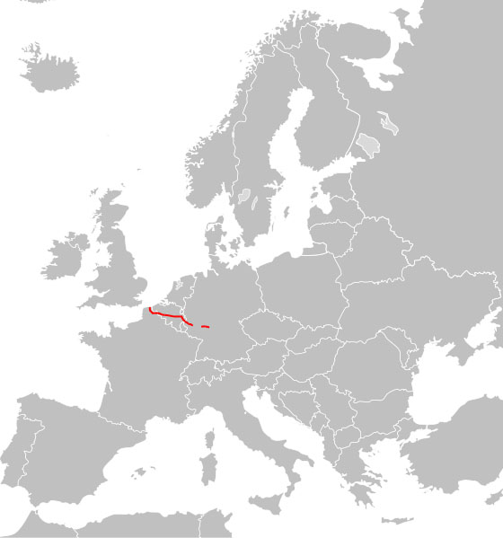 The European route 42